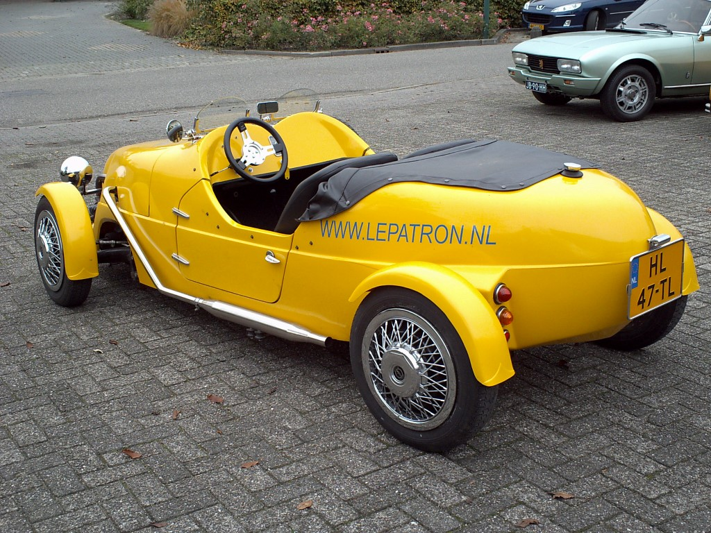 Le Patron 4 Built by Godfried van den Bergh in Ophemert, The Netherlands